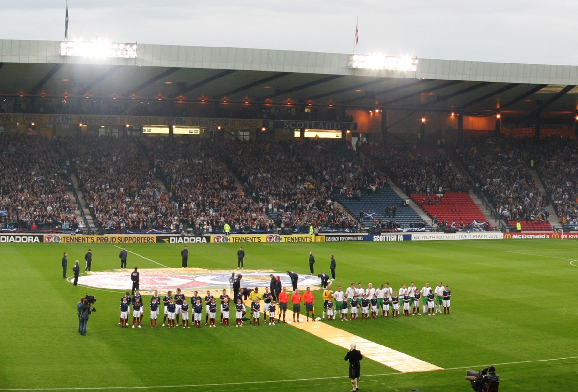 Scotland v Northern Ireland football match at Hampden Park, played on 20 August 2008.